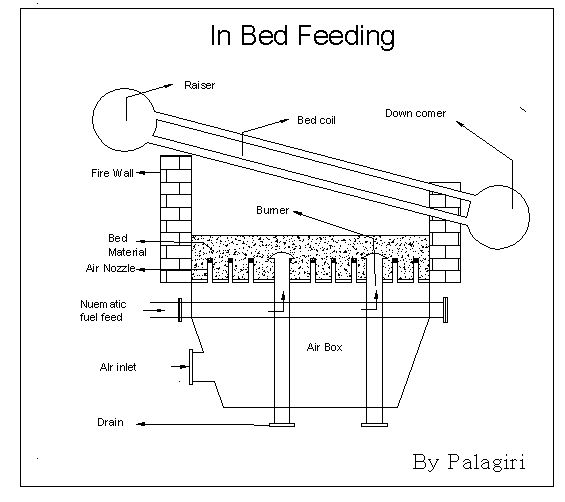 Inbed feeding with bed coil